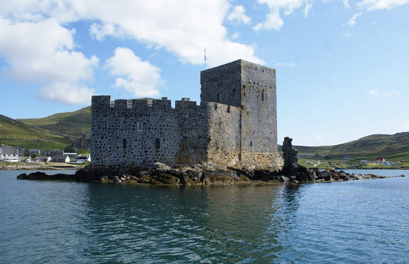 Kisimul Castle, Barra, Scotland - from south west